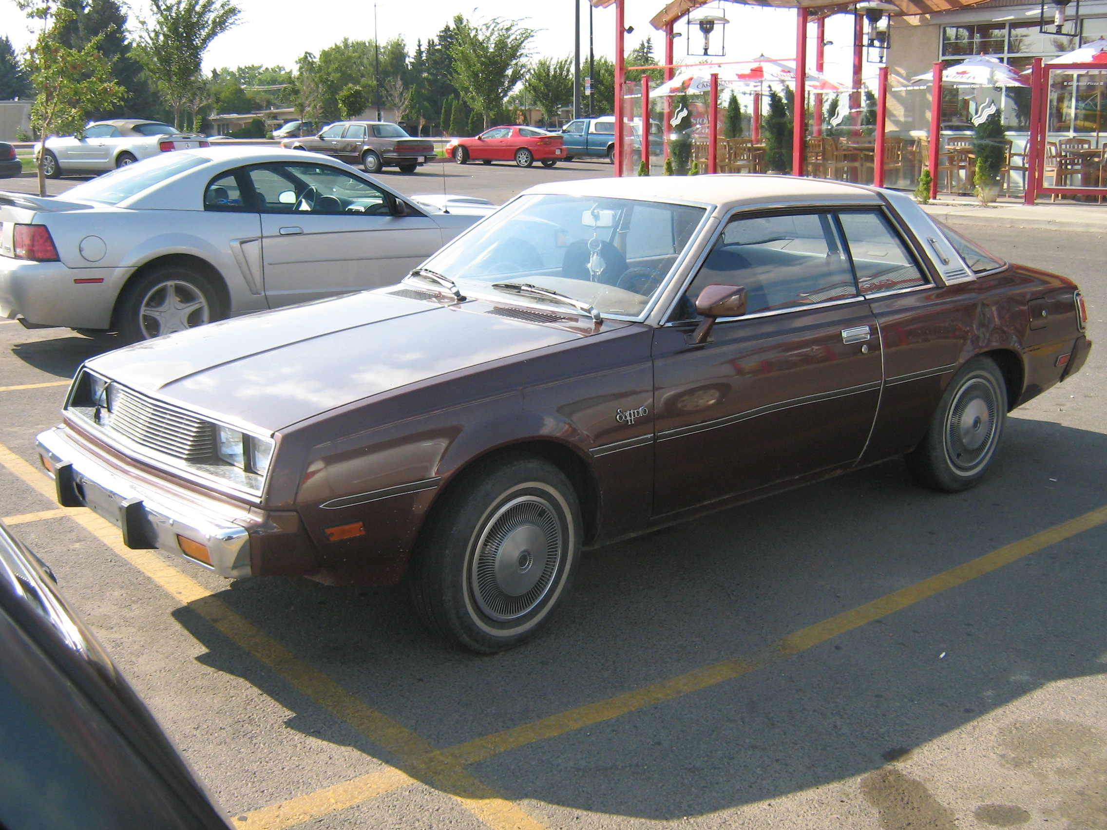 When was the last time you saw one of these? This has 4spd manual transmission too.